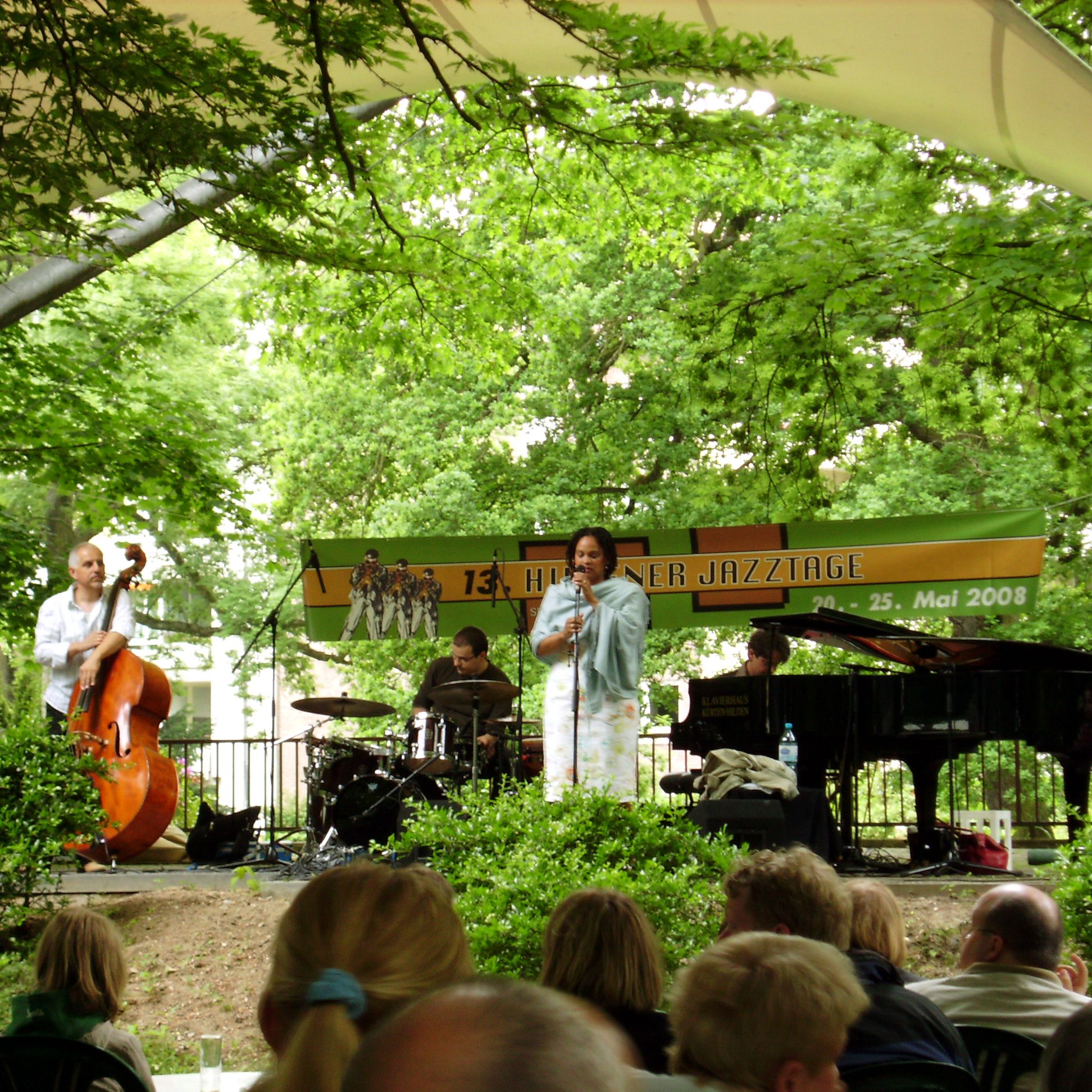 Cécile Verny Quartet at „13. Hildener Jazztage“ 2008 in Hilden, Germany, May 22, 2008